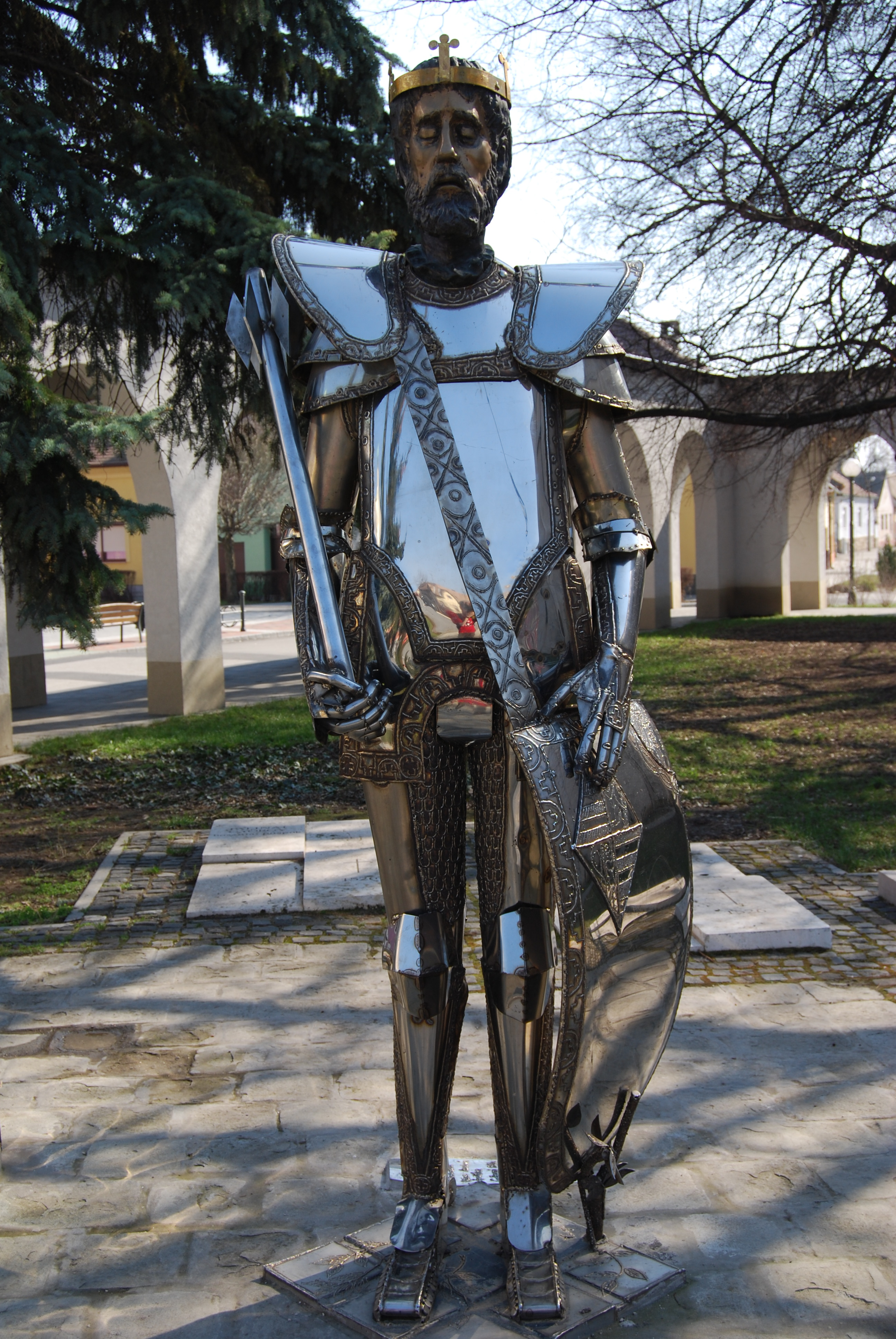 Statue of Louis II of Hungary in Mohács city, Hungary